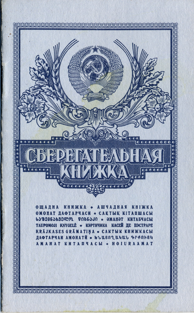 Soviet Union savings bank book. See sberkassa